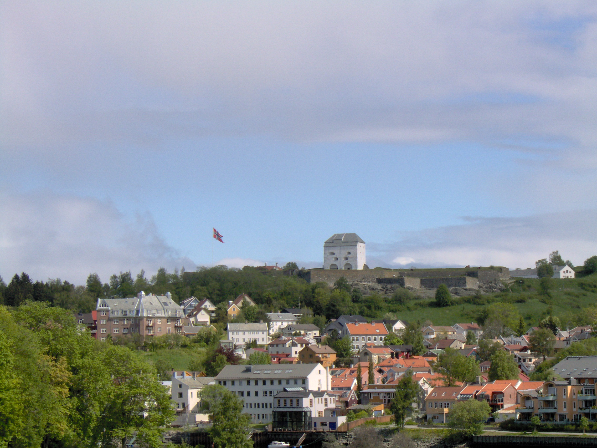 Kristiansten fortress, Trondheim.